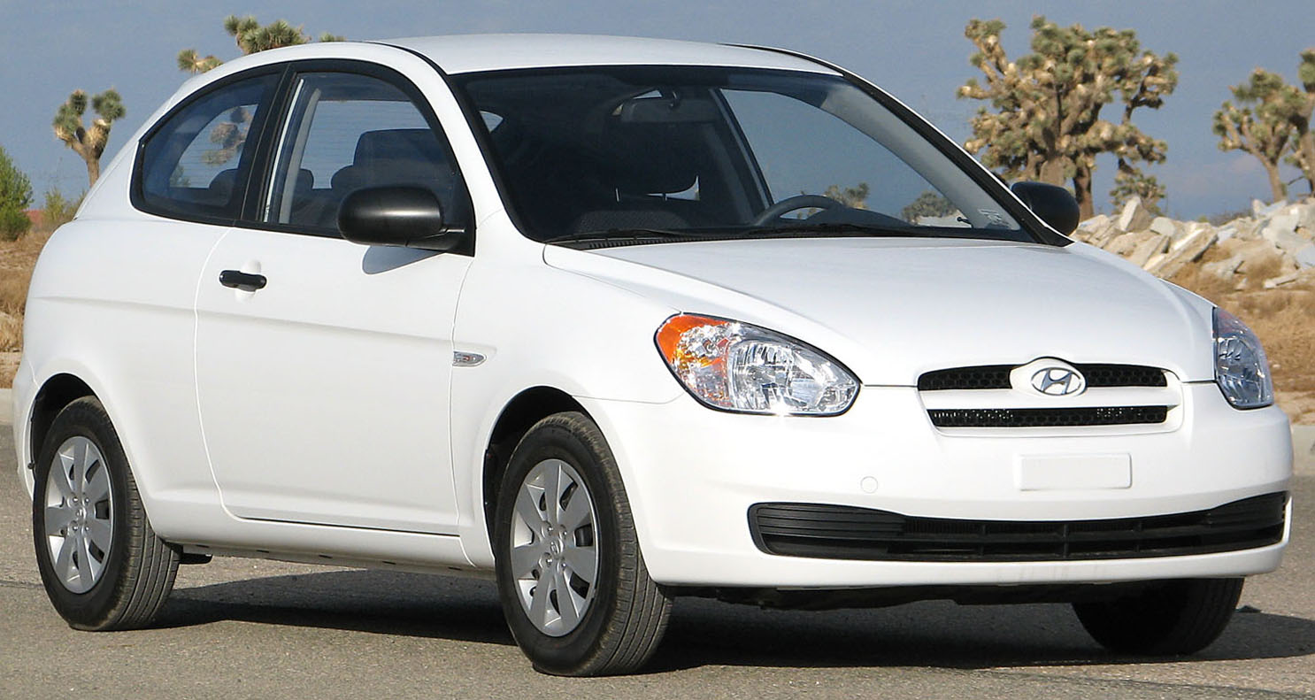 2010 Hyundai Accent photographed in USA.